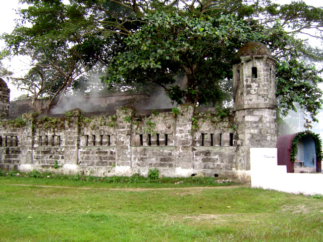 Cuartel de Santo Domingo, a declared National Historical Landmark in Santa Rosa, Laguna